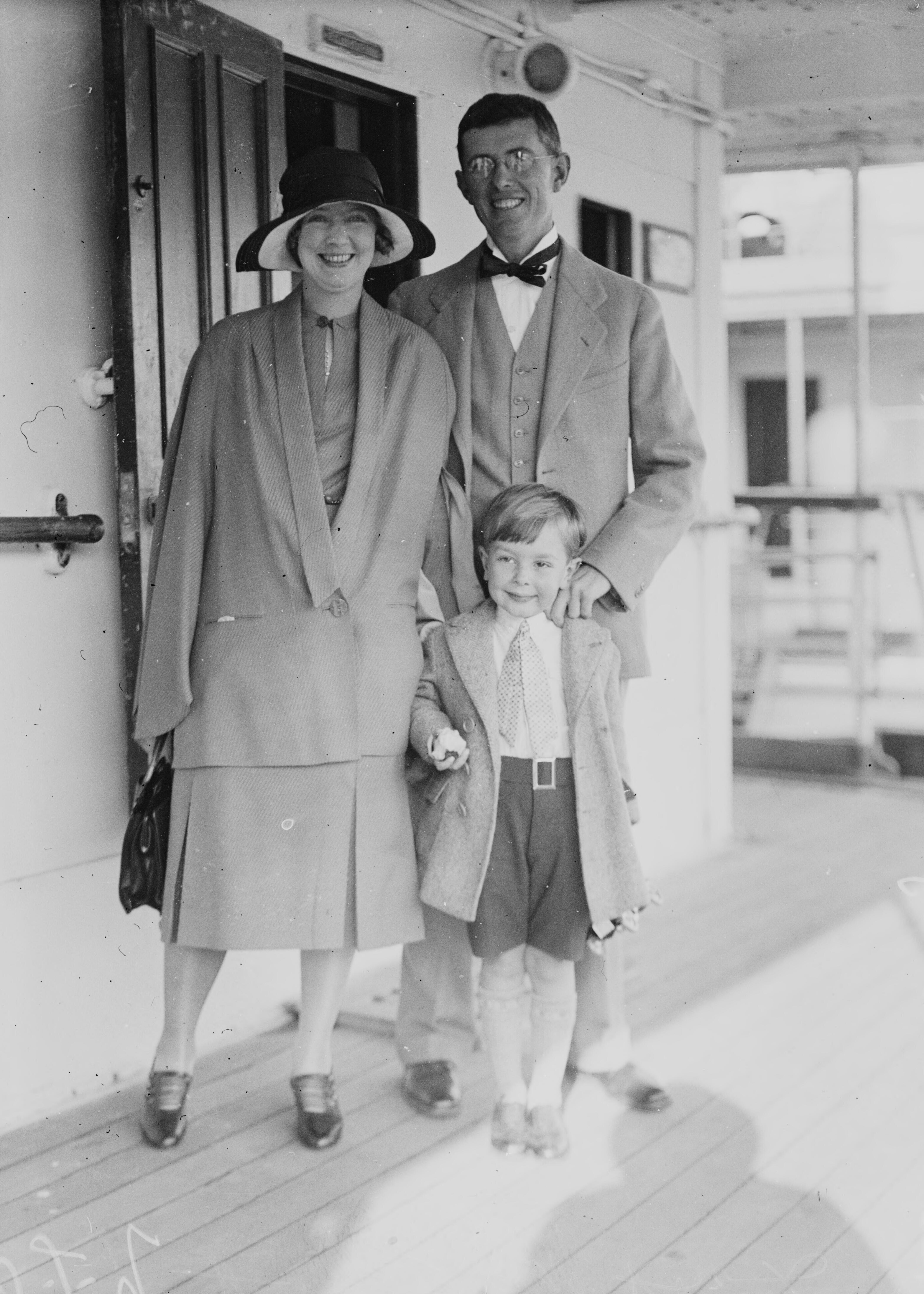 Australian politician Herbert Vere Evatt with his wife Mary (Sheffer) and son Peter, returning from a trip to England aboard RMS Makura.